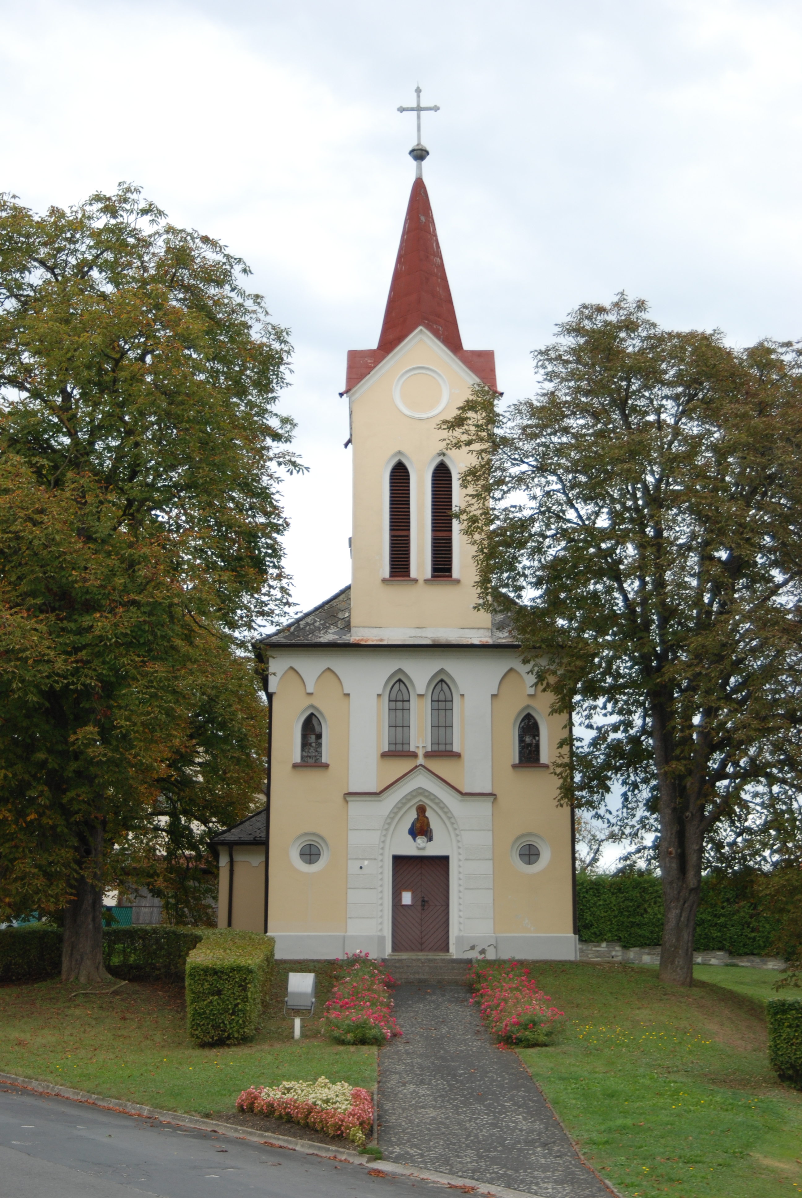 Kirche Poppendorf